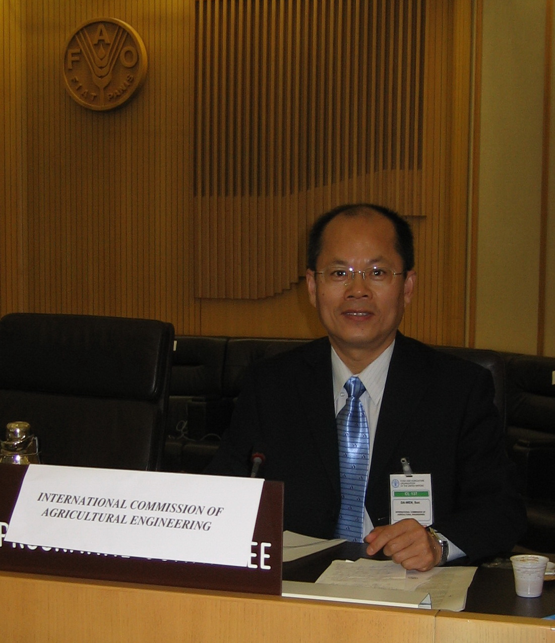 Da-Wen Sun at UN FAO Meeting